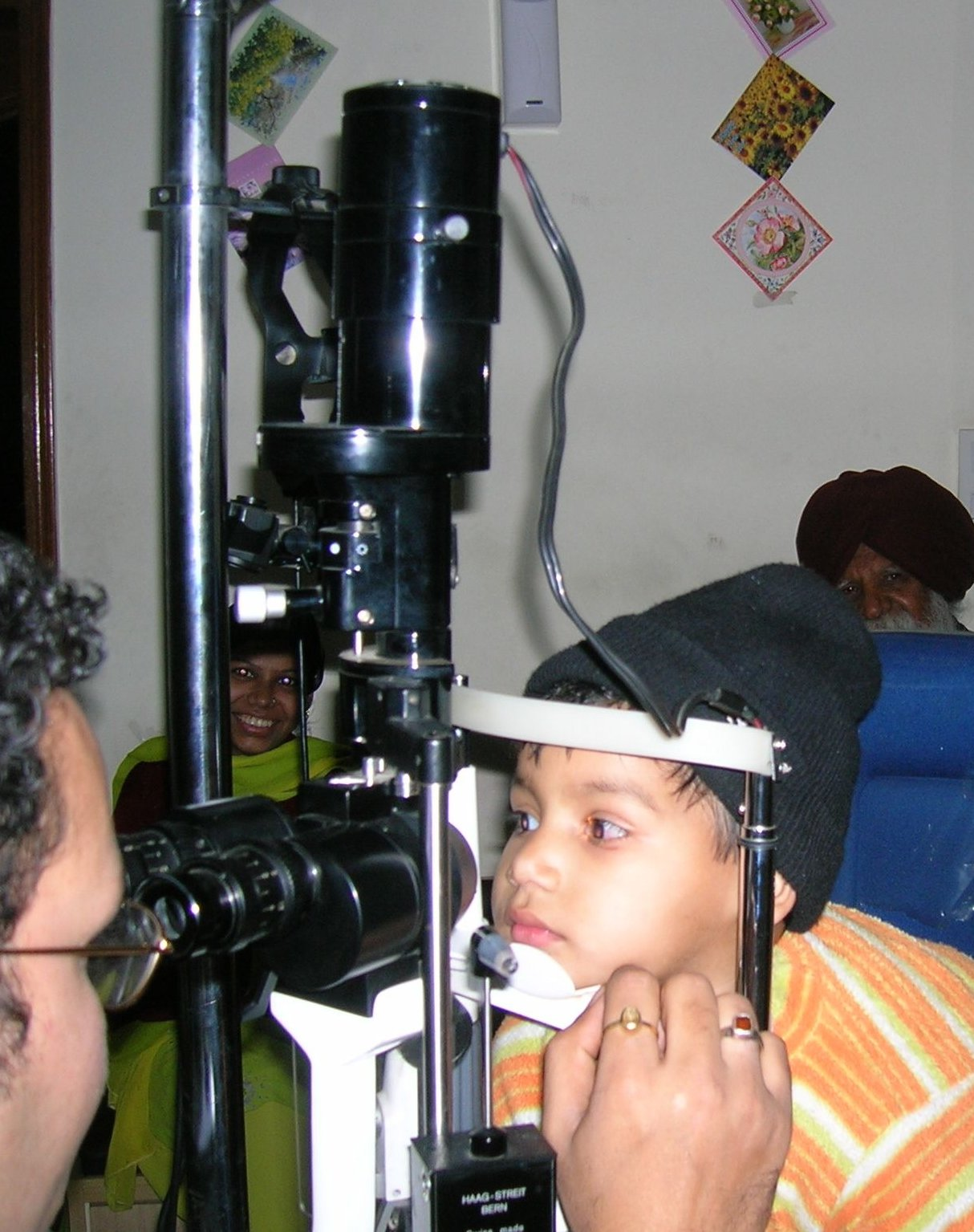 "Slit lamp examination of Eyes in an Ophthalmology Clinic"